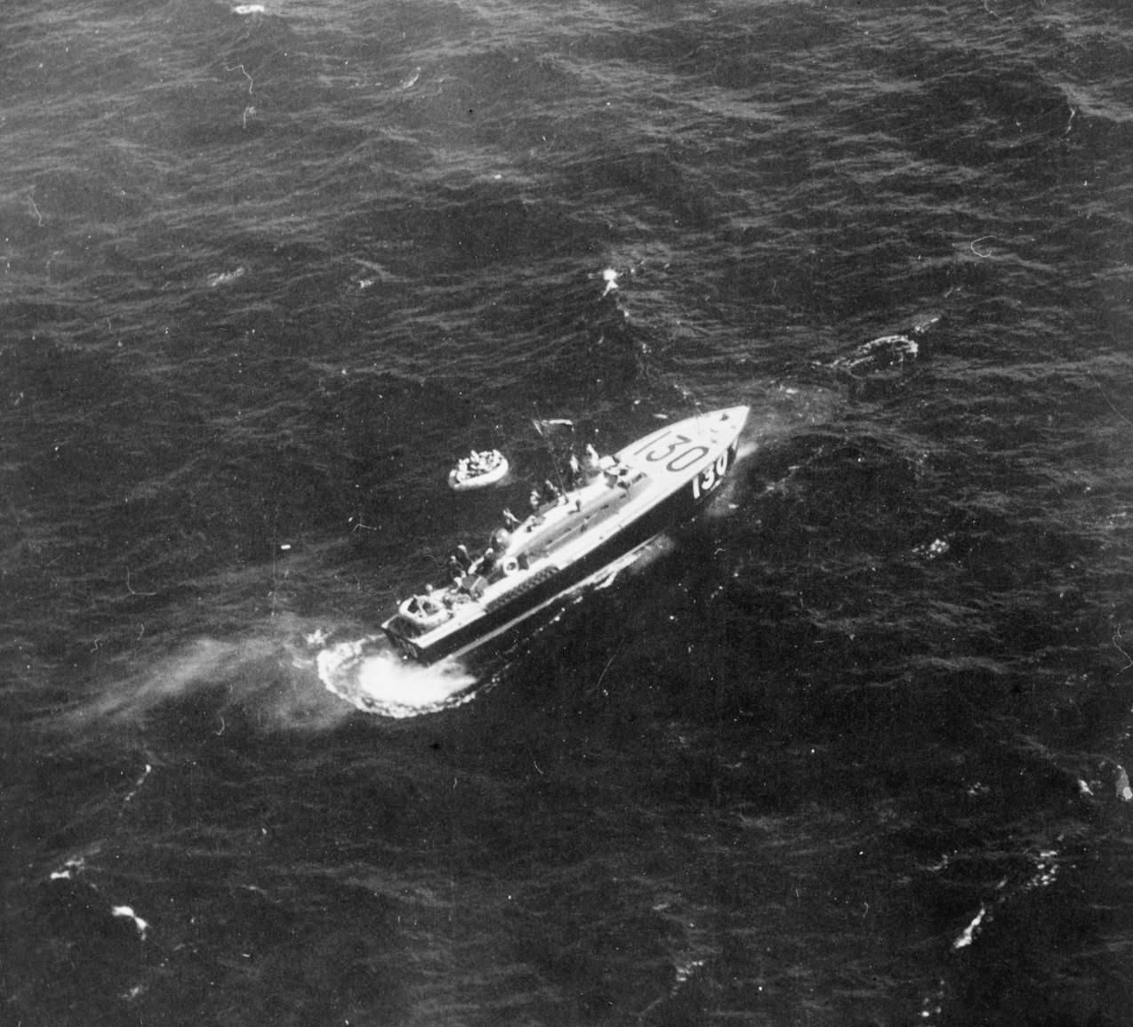 Aerial photograph taken from a Lockheed Hudson of No. 279 Squadron RAF showing High Speed Launch HSL 130 from Yarmouth (UK), rescuing the crew of a Handley Page Halifax from their dinghy in the English Channel off the Isle of Wight. They had been forced to ditch after their aircraft incurred damage from anti-aircraft fire while raiding Essen, Germany.